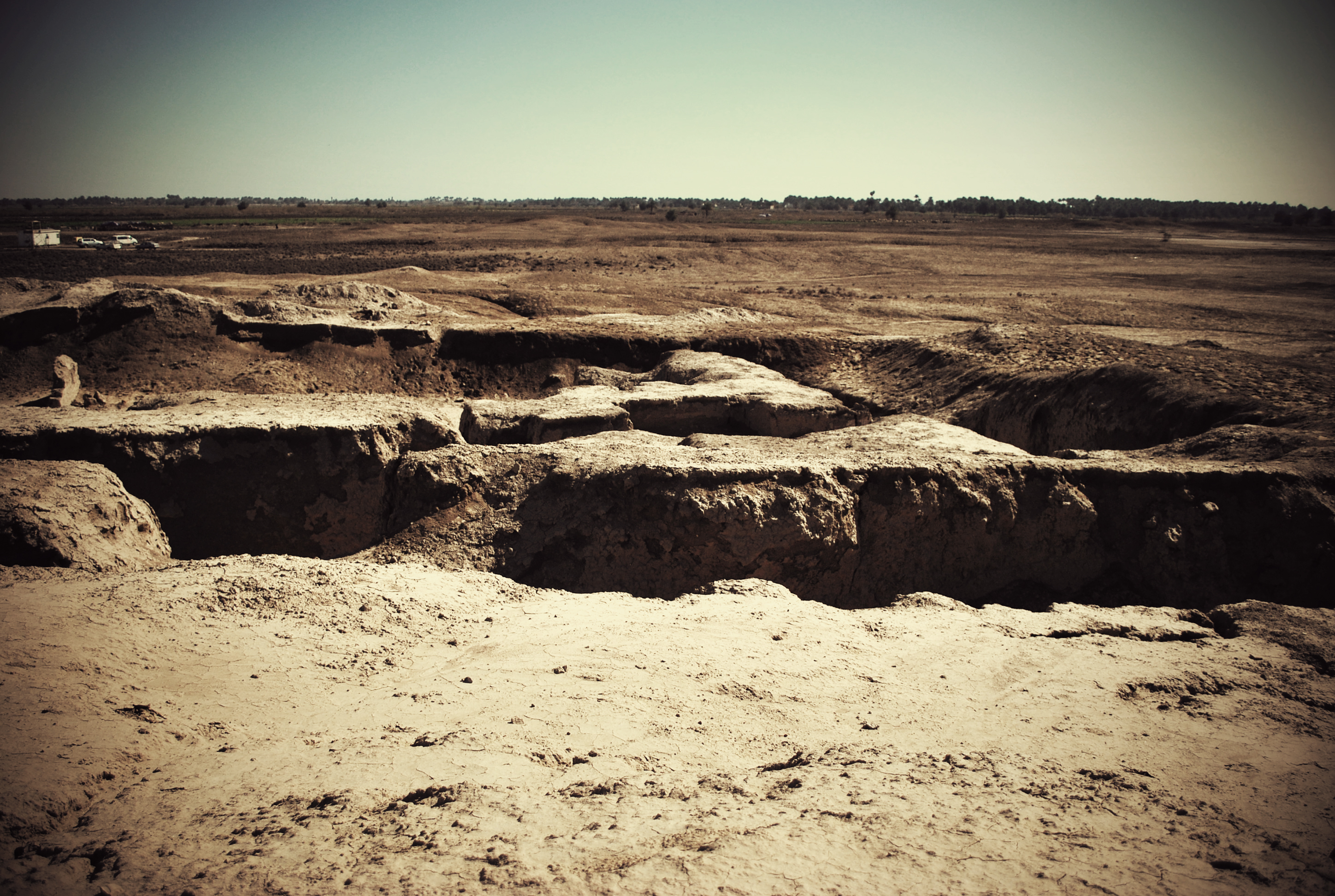 مدينة مرد الأثرية